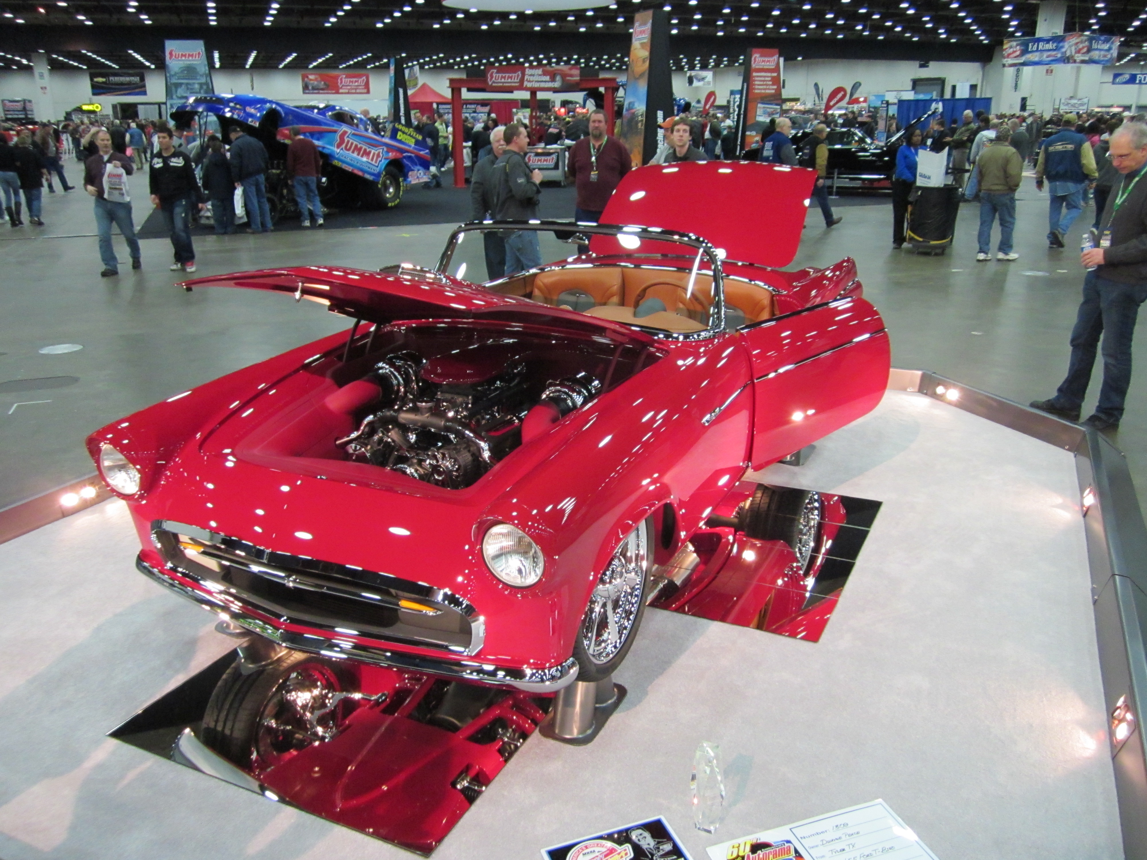 1955 Ford Thunderbird, Detroit Autorama hot rod show, Feb. 26, 2012